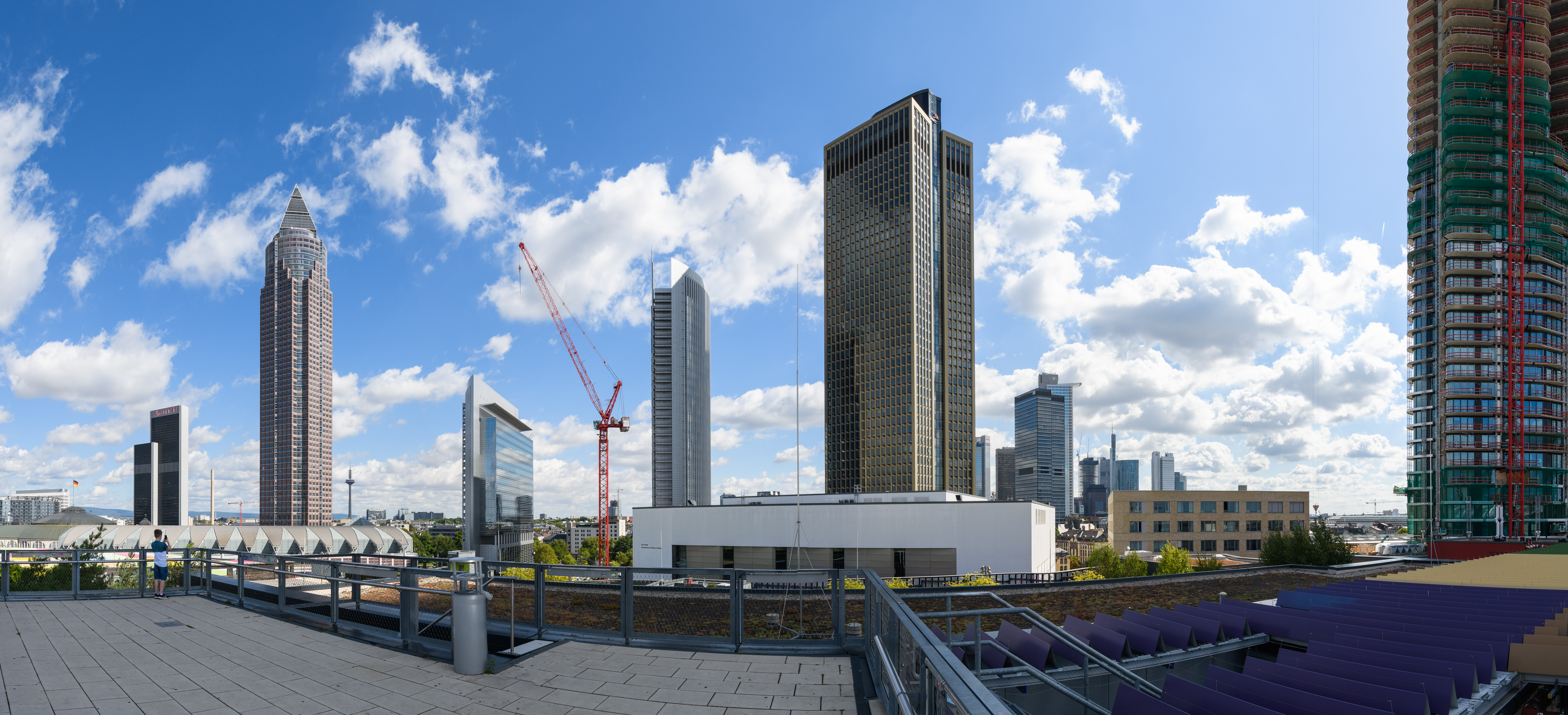 Frankfurt am Main, silhouette of the downtown buildings as seen from the roof terrace of the Skyline Plaza shopping mall.